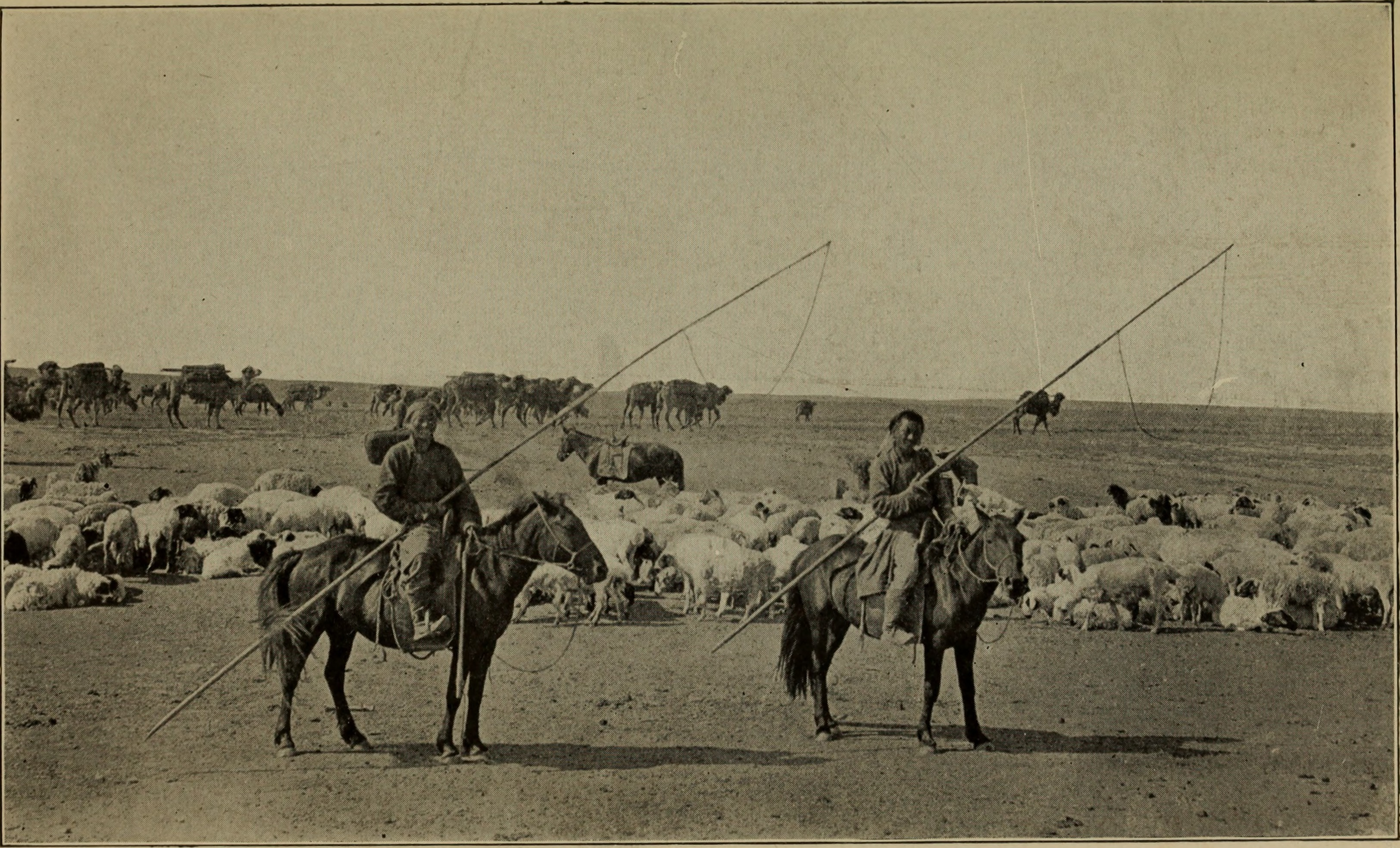 Title: Across Mongolian plains; a naturalist's account of China's "great northwest", by Roy Chapman Andrews ... photographs by Yvette Borup Andrews .. Year: 1921 (1920s) Authors: Andrews, Roy Chapman, 1884-1960 Subjects: Zoology; Hunting Publisher: New York, London, D. Appleton and company Text Appearing Before Image: ' Text Appearing After Image: '